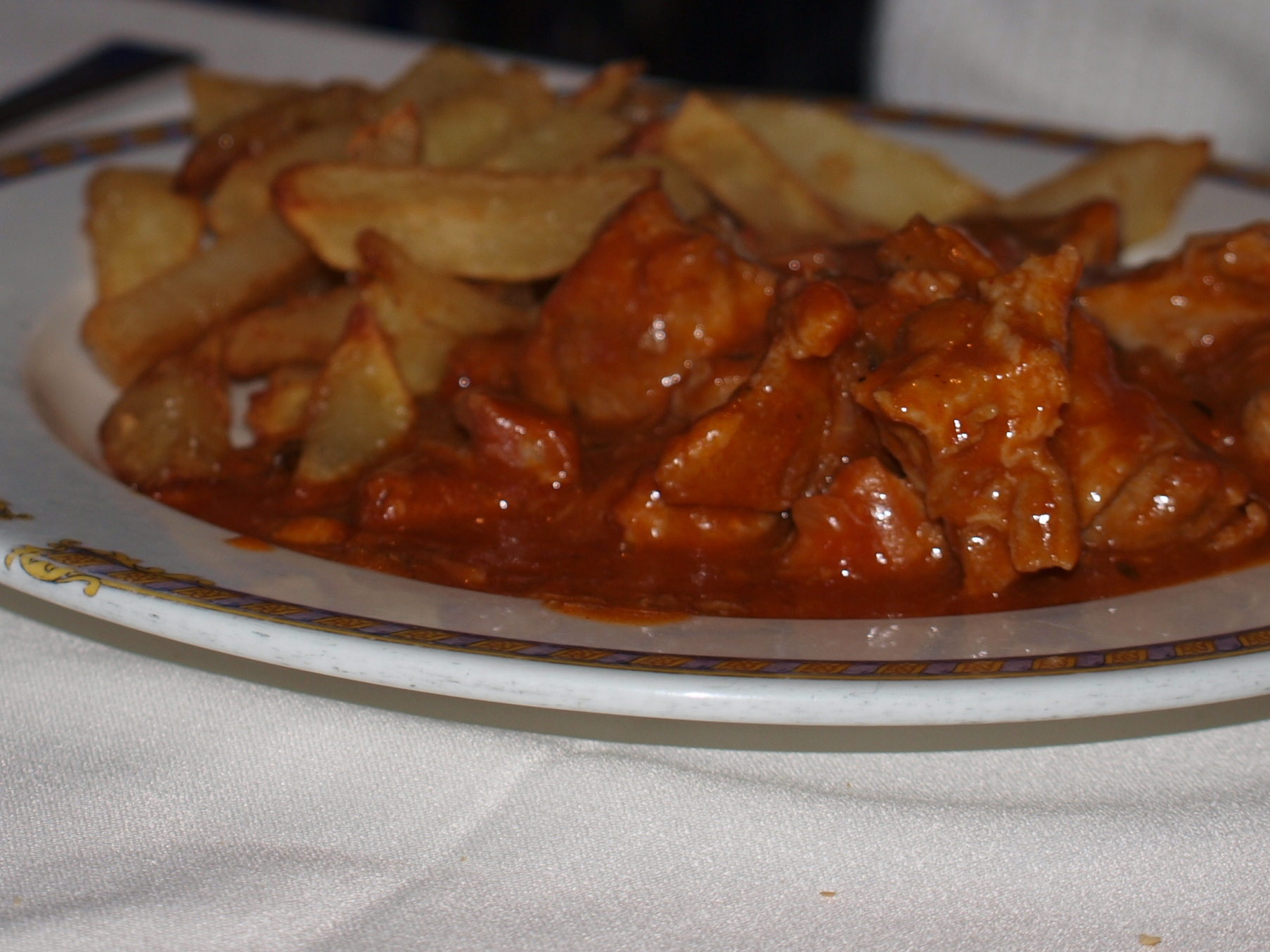 Carcamusas, a spanish dish from Toledo.